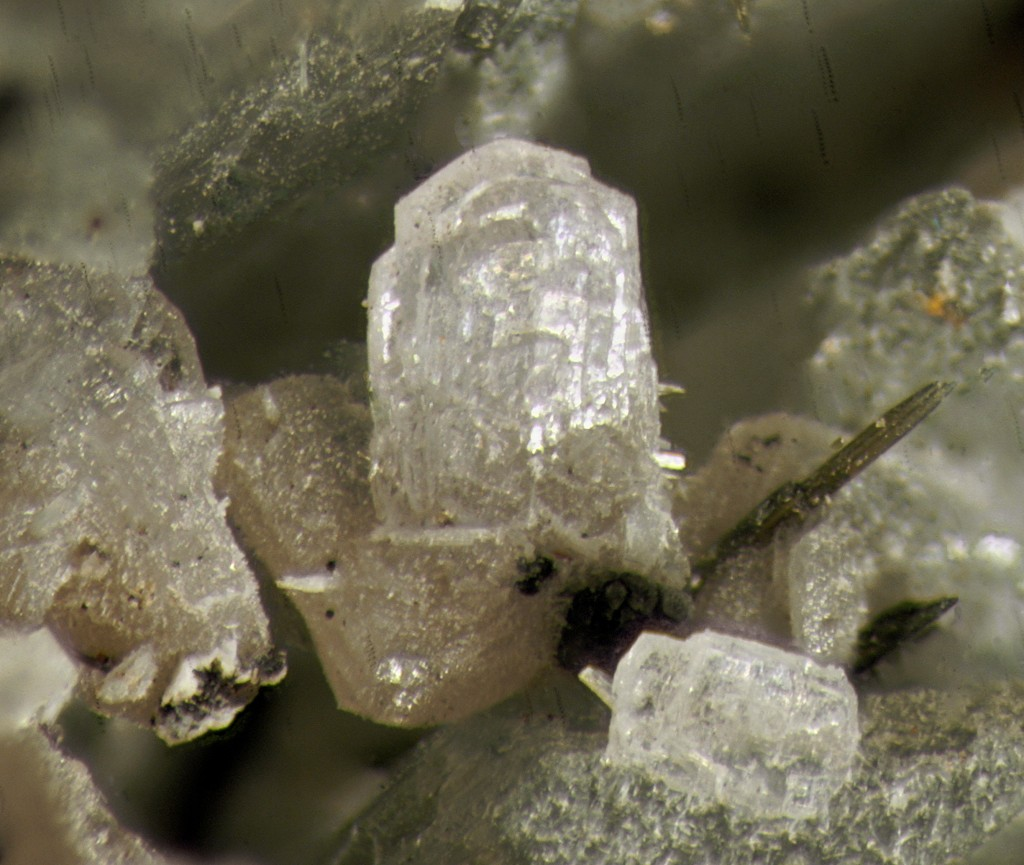 Götzenite Locality: Poudrette quarry (Demix quarry; Uni-Mix quarry; Desourdy quarry; Carrière Mont Saint-Hilaire), Mont Saint-Hilaire, Rouville RCM, Montérégie, Québec, Canada Xls ~ ⅞ mm. This is a child photo (of a götzenite parent). According to TS (ROM), the common notion that bladed xls in marble xenolith are calcioancylite-(Ce) is unreliable. Most calcioancylite-(Ce) at MSH appears to be the result of alteration. These xls appear to be primary (hence ancylite-(Ce). But not analyzed hence posted as "ancylite group". The whitish "shards" are more gotzenite. Replaced photo Dec 2012. These are smaller xls but the color is probably more accurate - although it depends greatly on the illumination. Under tungsten (as used here), the color apears as pinkish violet to the eye.